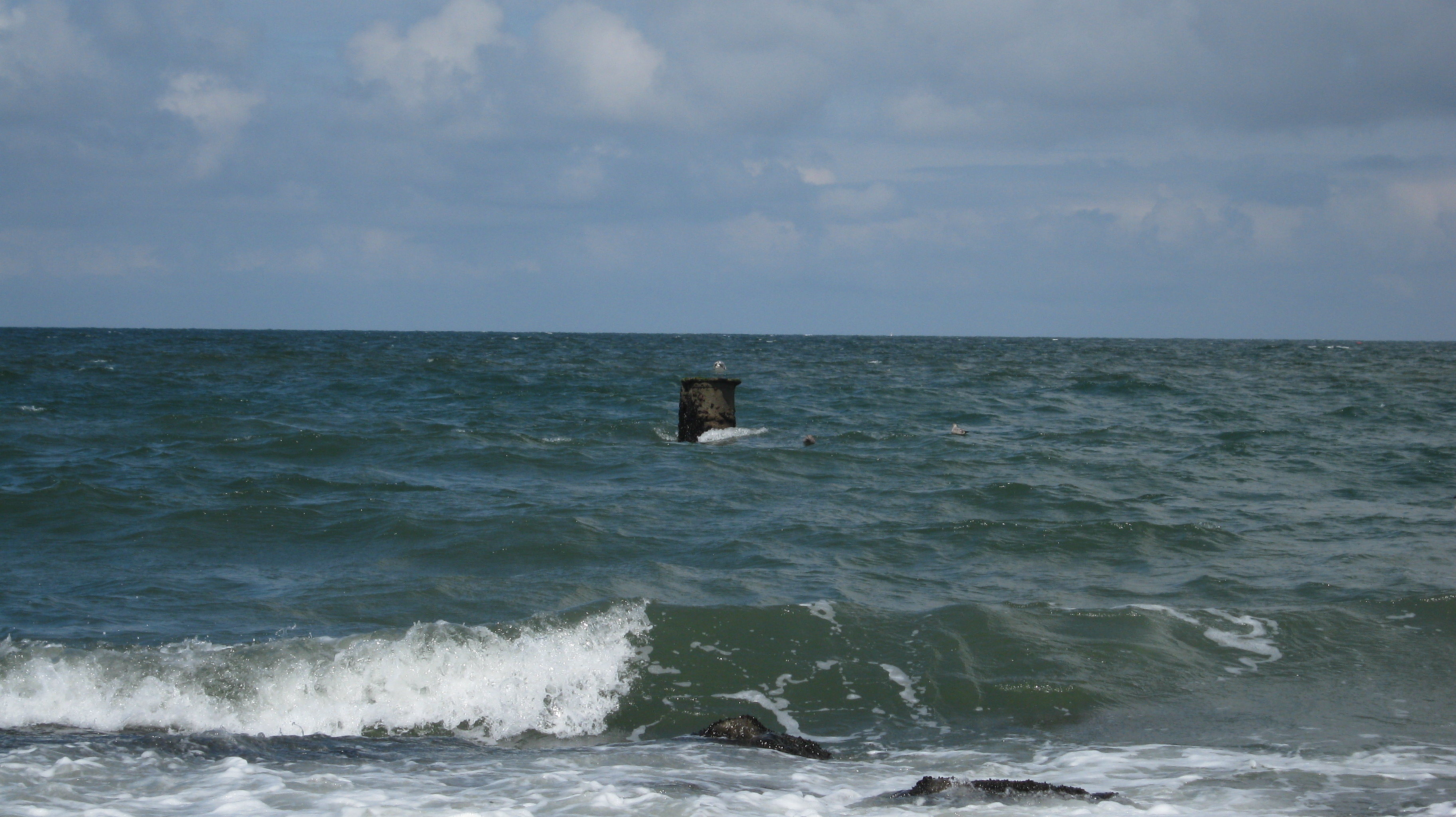 Wreck of SS Surrey